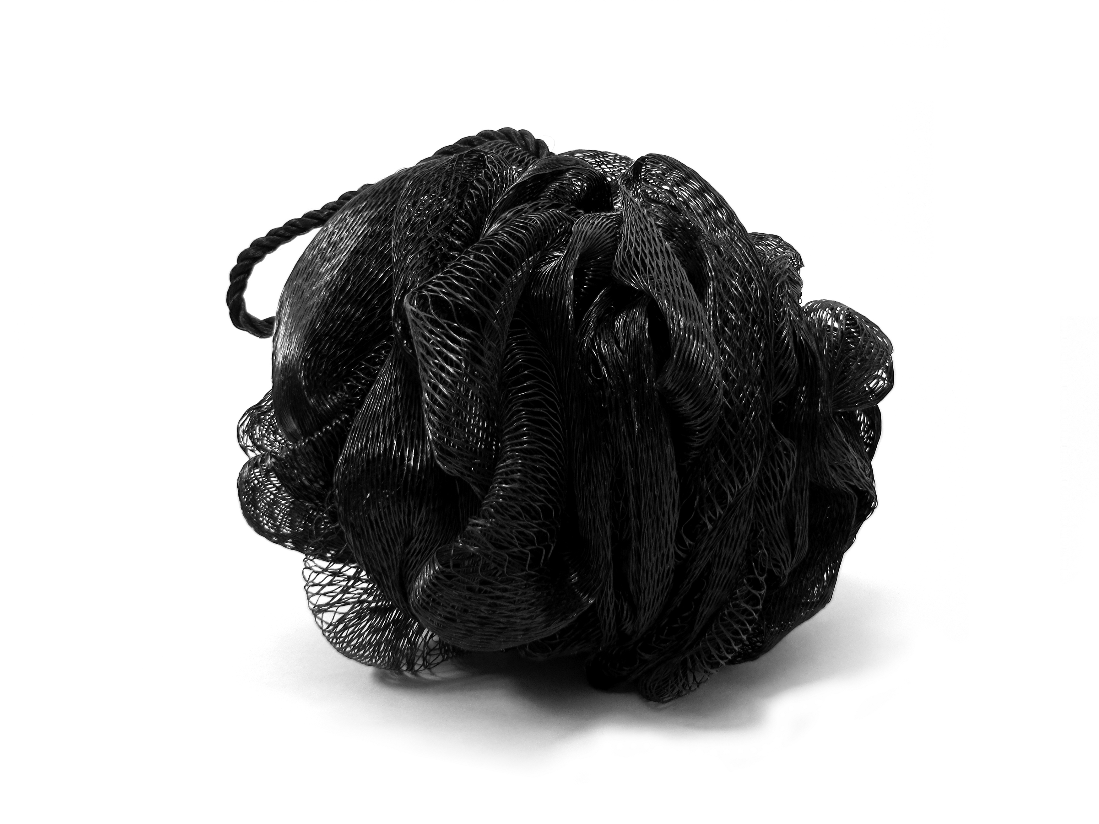 Black mesh sponge used for bath hygiene.